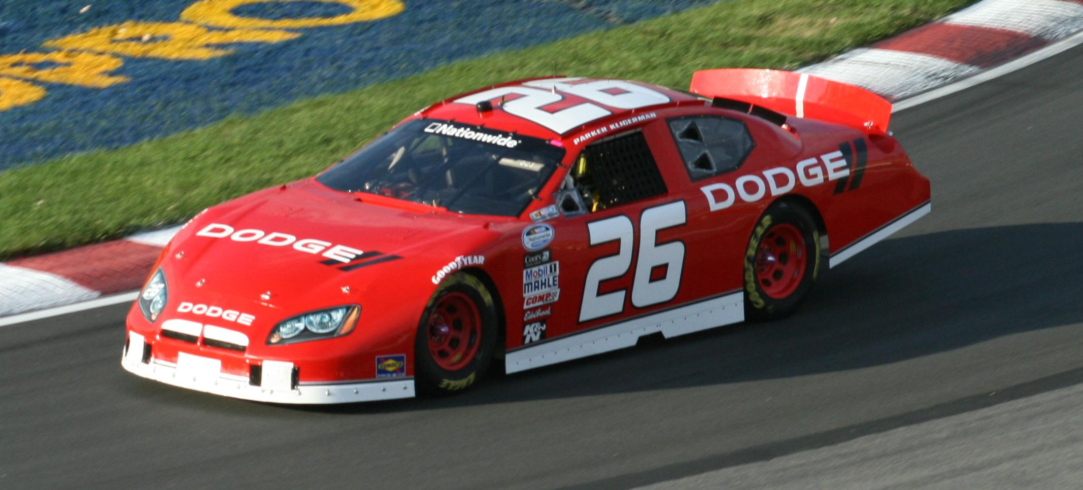 Parker Kligerman in the qualification for the 2010 NAPA Auto Parts 200 at the Circuit Gilles Villeneuve in Montreal.